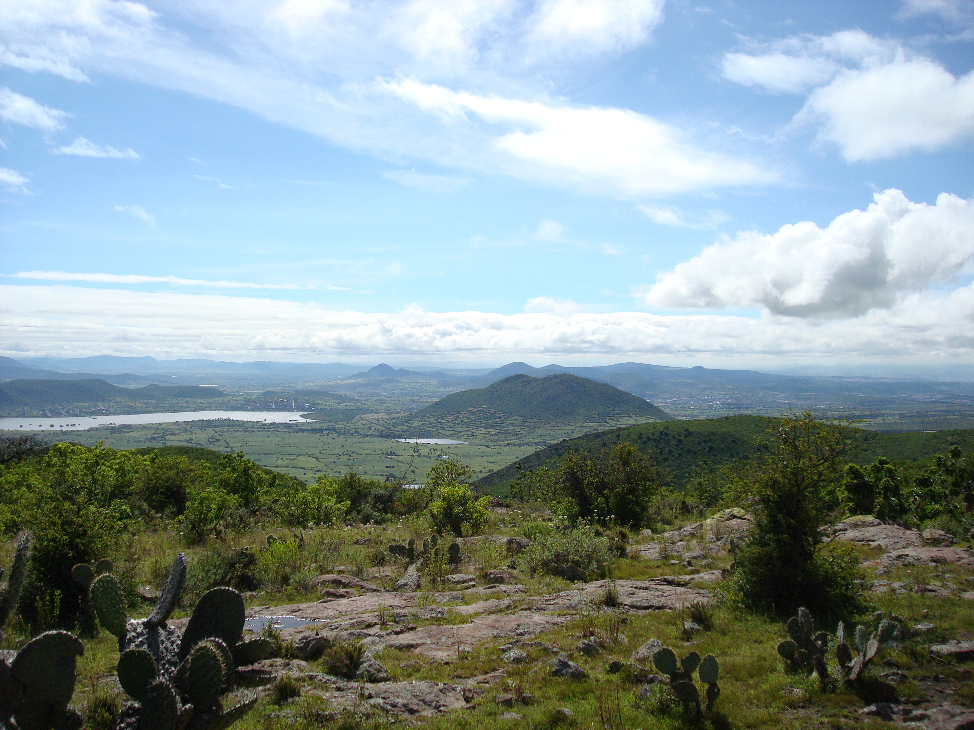 Overview of Joya La Barreta Park — in the Municipality of Querétaro, Querétaro state, Mexico.